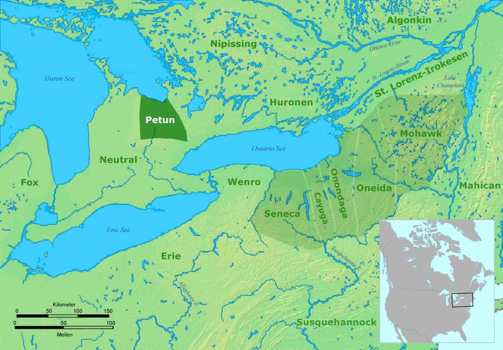 Tribal territory of Petun about 1630